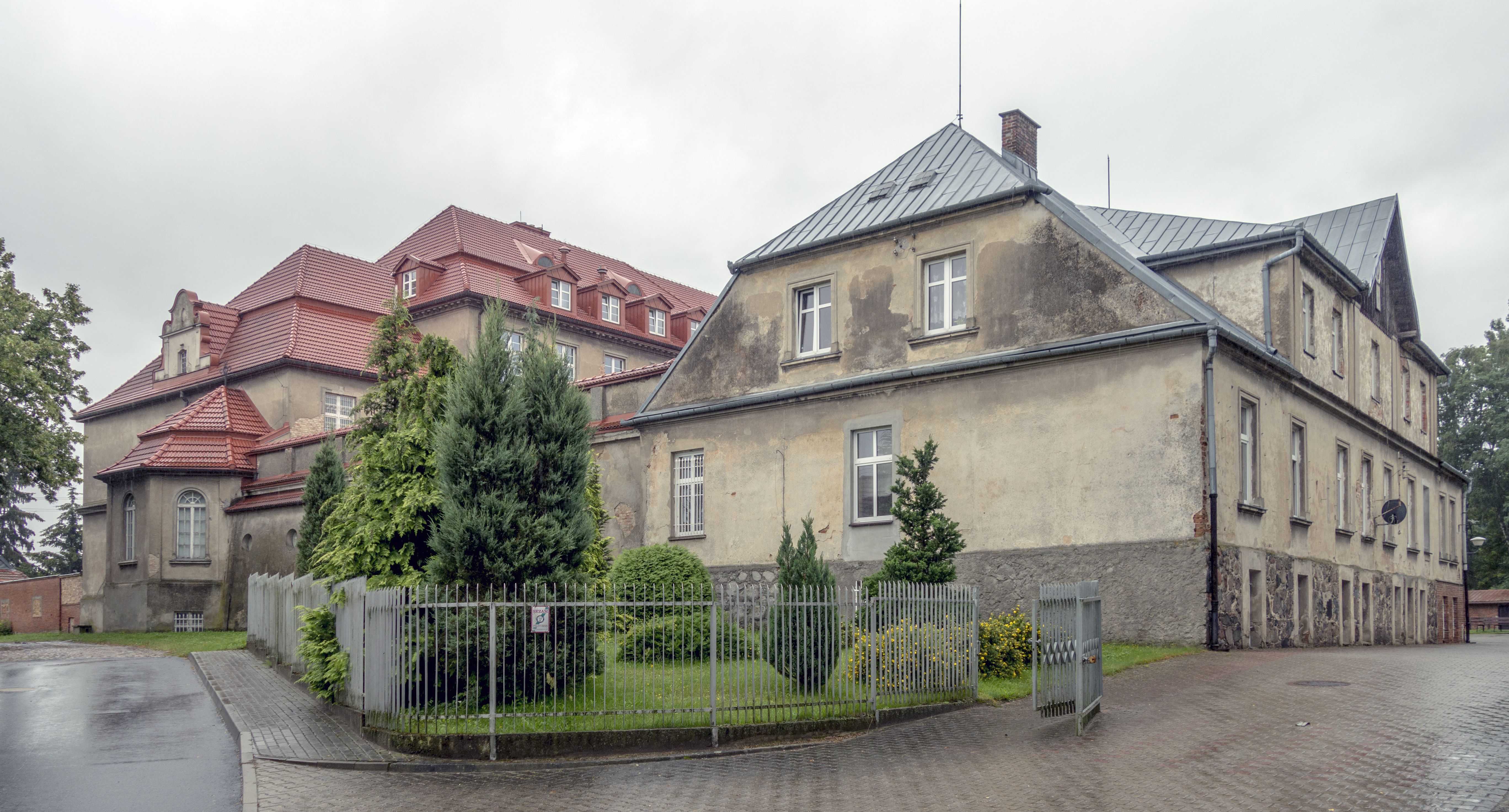 Convent of Society of the Sacred Heart in Pobiedziska (Poland)